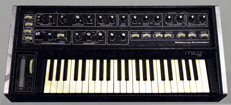 Multimoog Here is the Multimoog that Tony Allgood repaired for me, sitting proudly and prog style on top of my Hohner Pianet. No, they never go out of tune.